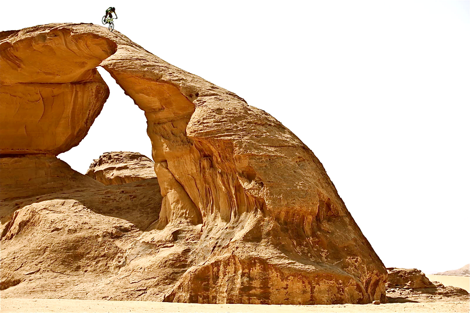 Hans Rey Wadi Rum Desert Jordan